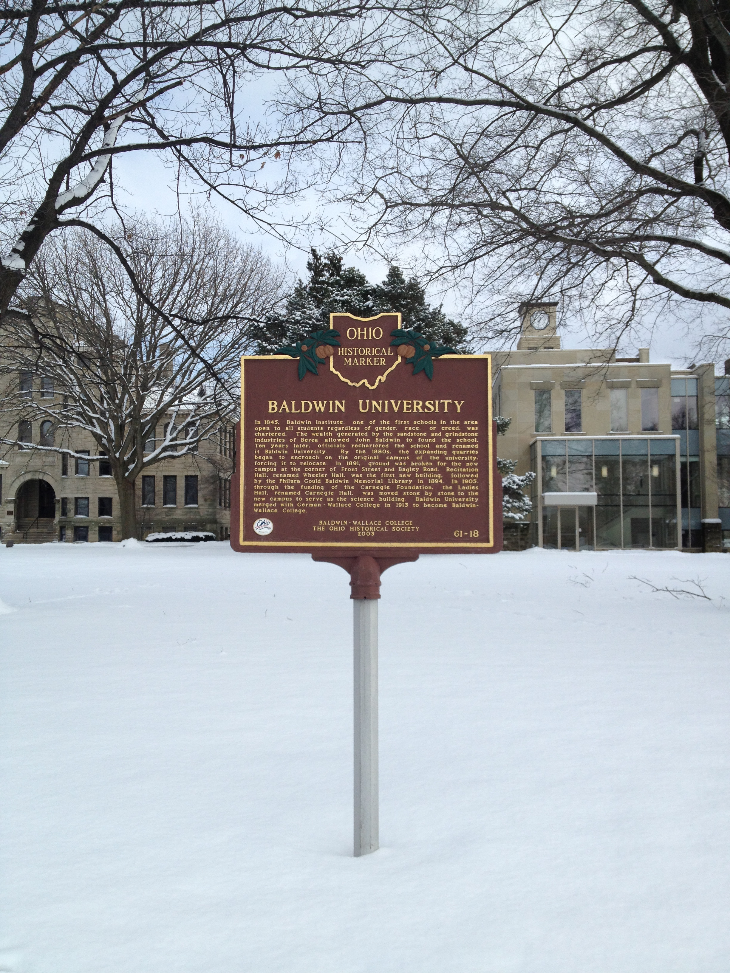 Historic Marker on Baldwin Wallace University North Campus